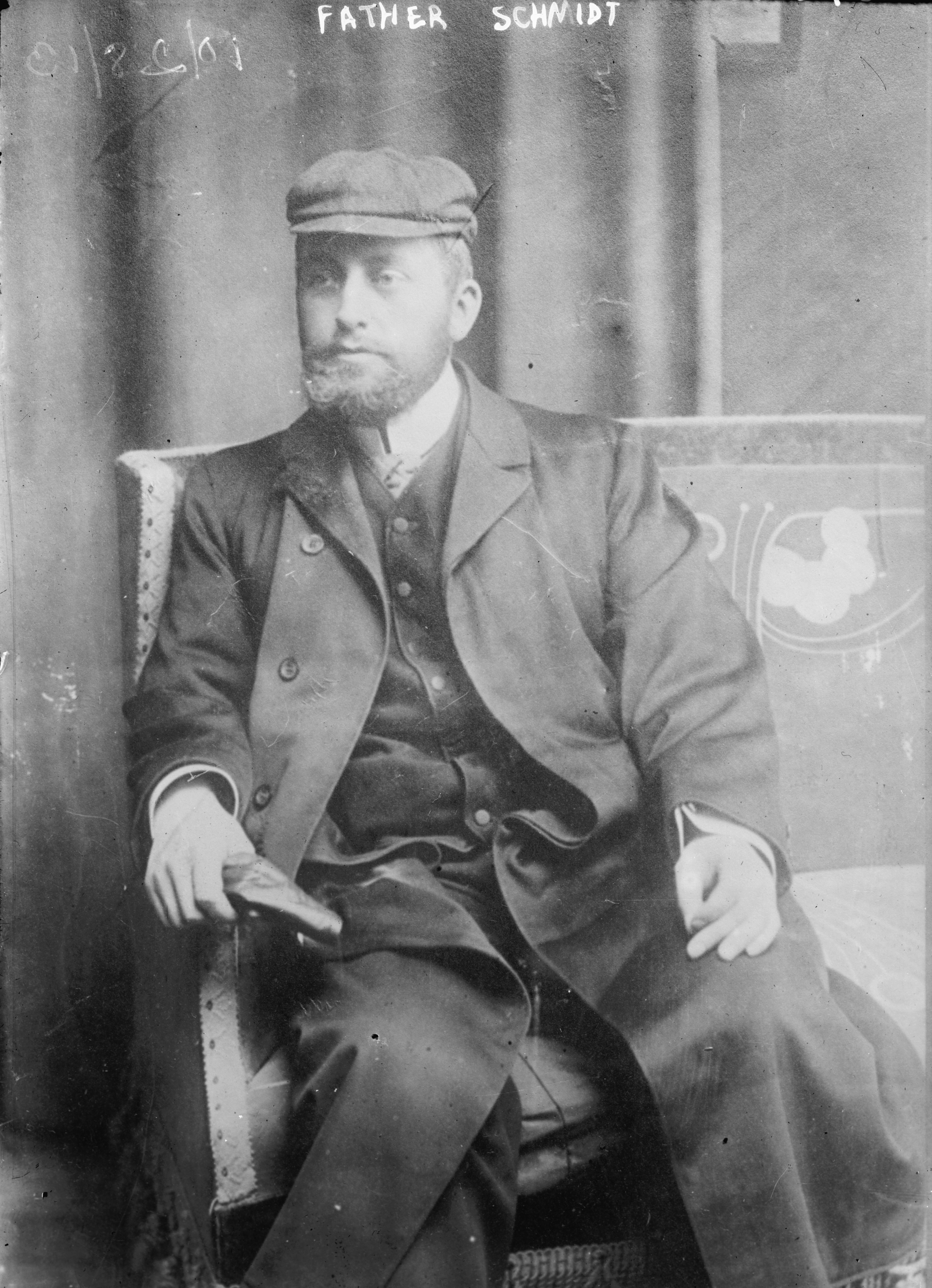 Fr. Hans Schmidt